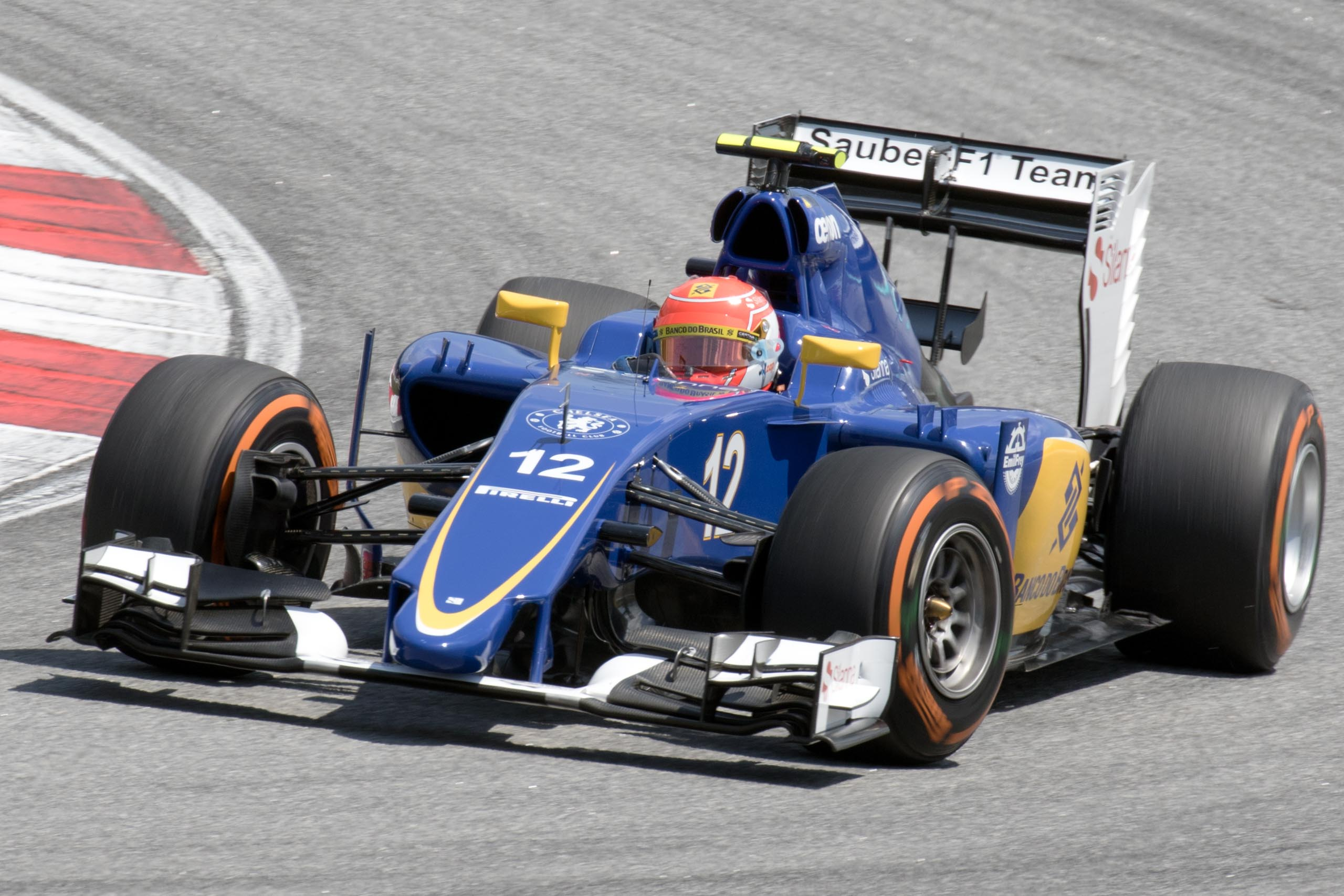 Formula One 2015 Rd.2 Malaysian GP: Felipe Nasr (Sauber)